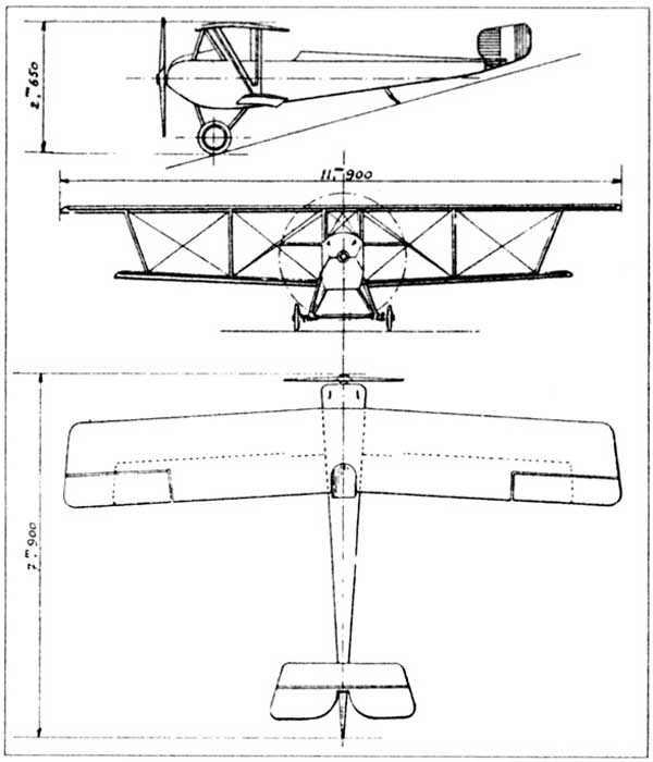 Nieuport 14 A.2 identification drawing